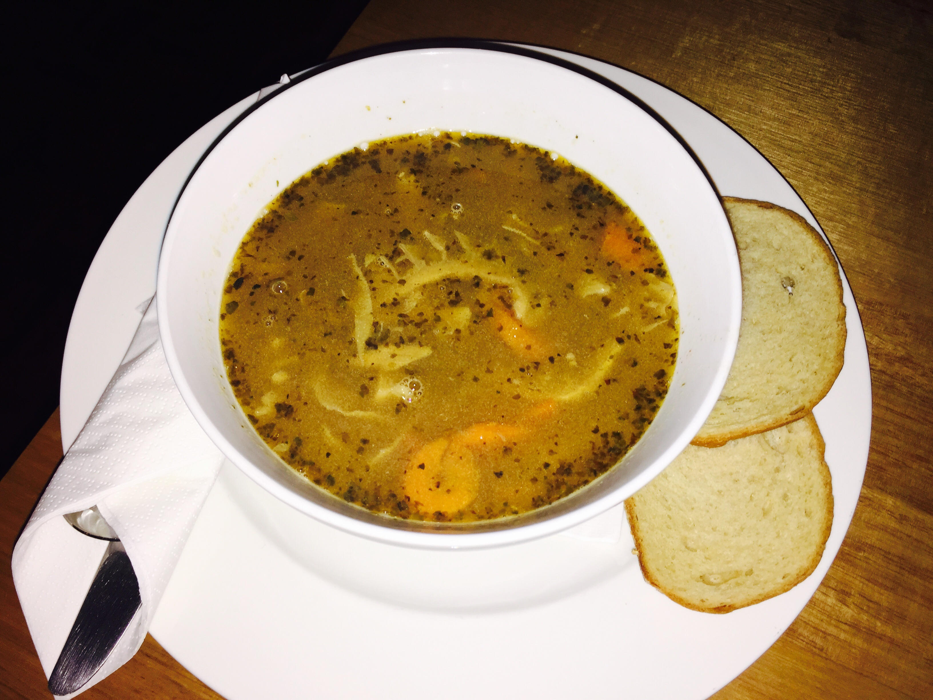 Flaki, Polish dishes served in Restaurant at the Polonia Polish Club, Brisbane